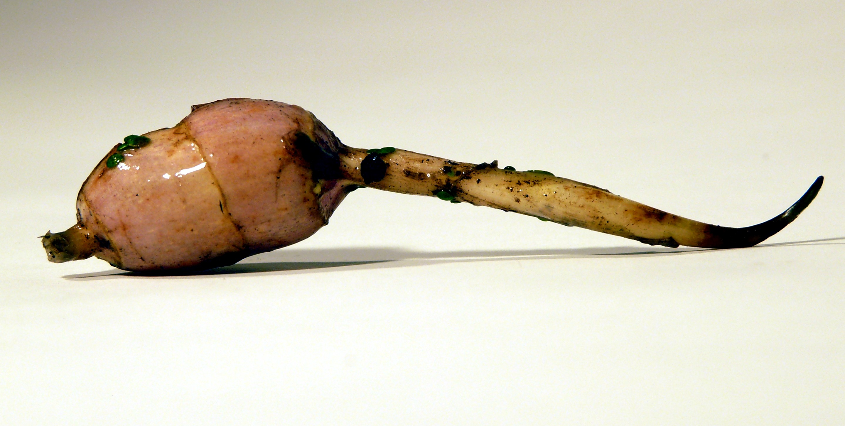 Eatable part of the plant